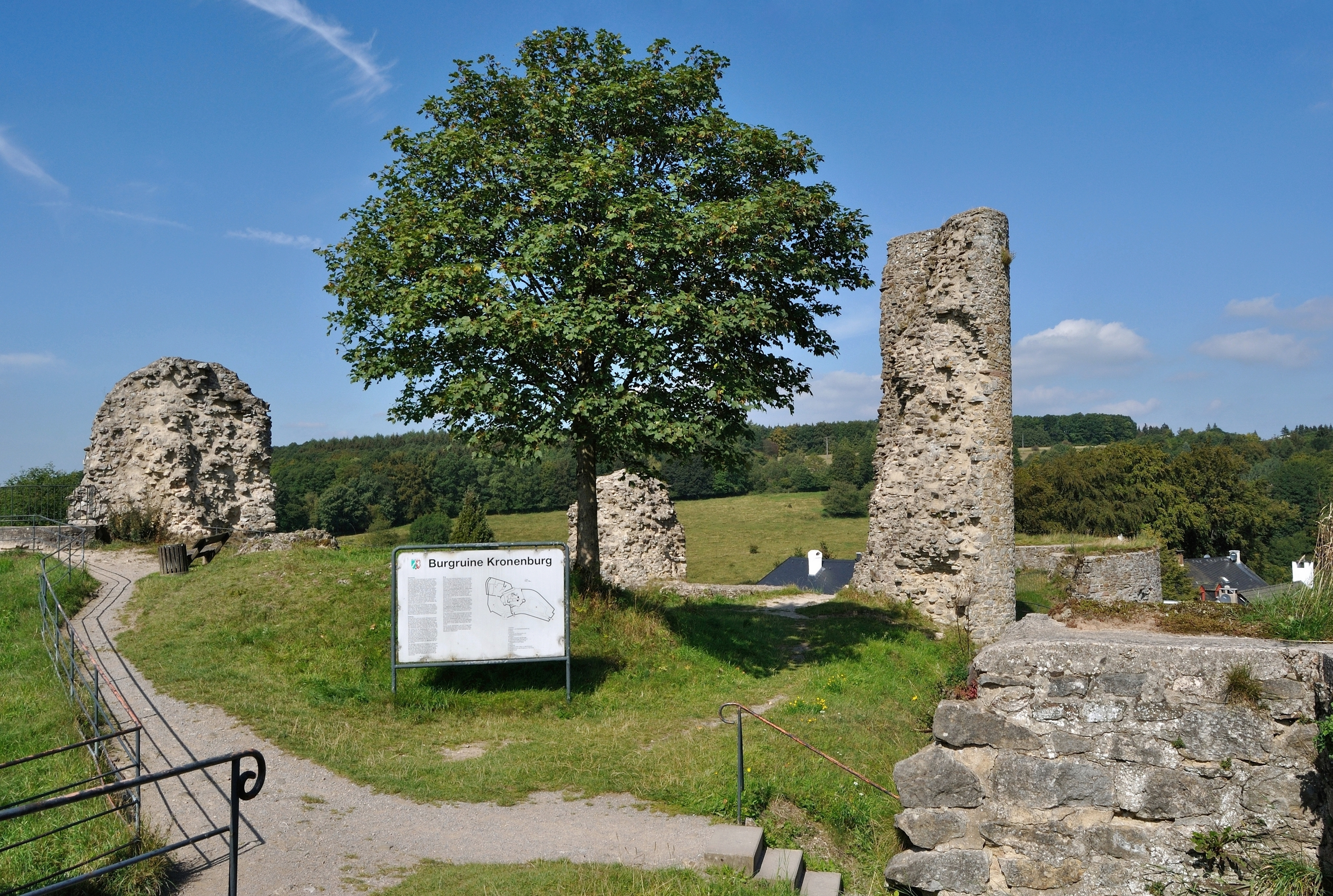 Dahlem (North Rhine-Westphalia, Germany) – Kronenburg – castle ruin Kronenburg This image shows a heritage building in Germany, located in the North Rhine-Westphalian city Dahlem (Nordeifel). This photograph was taken with a Nikon D3000